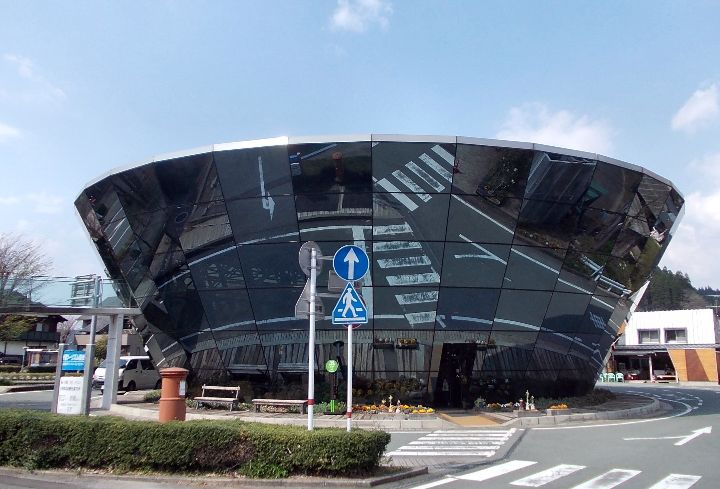 Michi-no-eki (=roadside station) Oguni, aka. Oguni Dome, is located in Oguni town, Kumamoto, Japan.